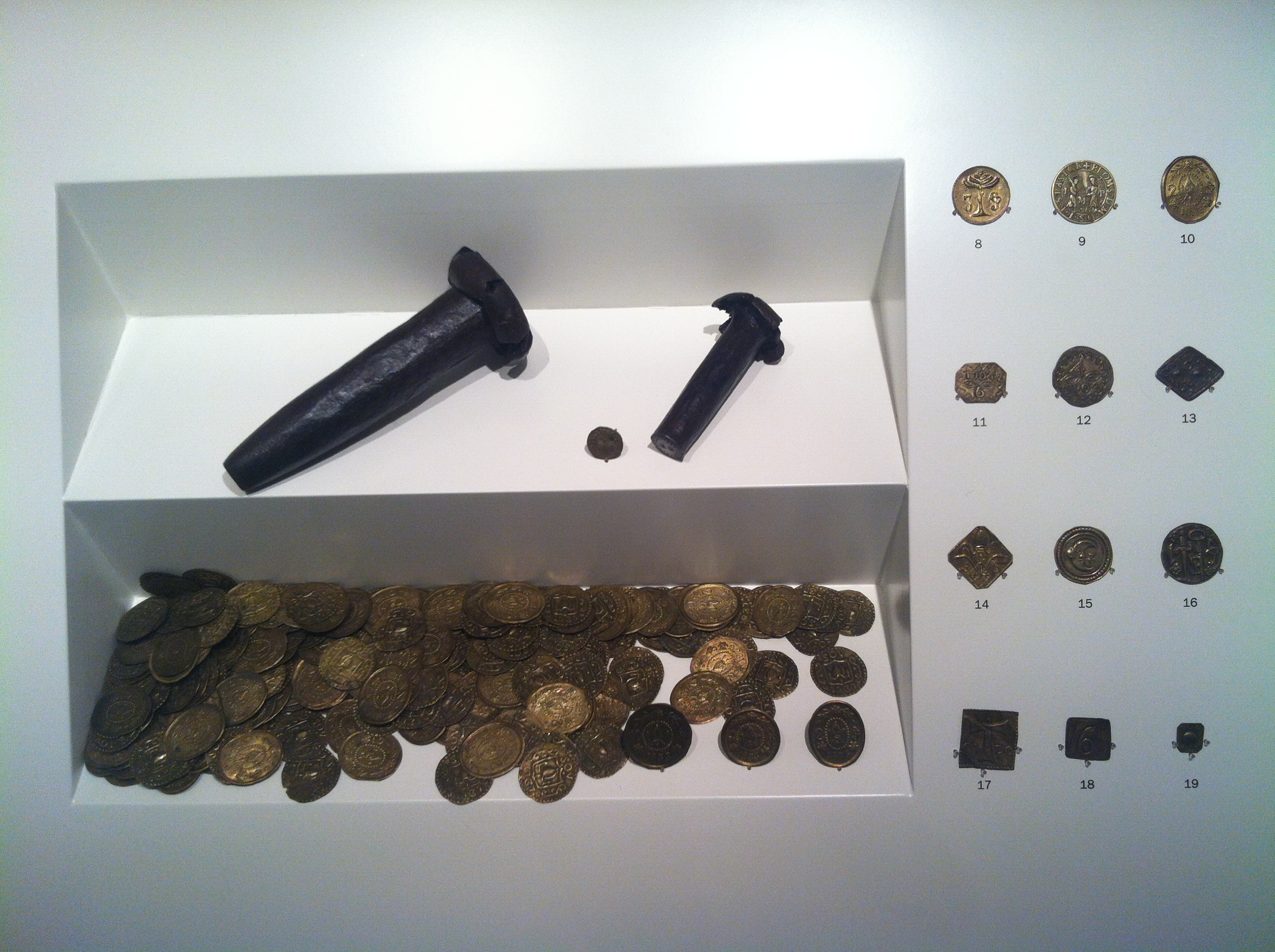 Numismatic collection conserved at MNAC in Barcelona.The collection of the Numismatic Cabinet of Catalonia, open to consultation by researchers, is formed by over 135,000 pieces. The principal numismatic series are represented here, with coins dating from the 6th century BC to the present day, as well as medals, valuable paper, tokens, monetary weights, scales, dies, decorations and insignia. Of all this wealth of material, the most important and emblematic series are without doubt the Catalan ones. They include extremely rare pieces, such as the first silver coins ever struck in the Iberian Peninsula by the Greeks of Emporion, the issues of the Catalan counties, those of the 17th-century Reapers’ War, those of the Napoleonic invasion and the bank notes issued by local councils in Catalonia during the Civil War of 1936-1939